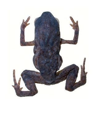 Holotype of Paedophryne kathismaphlox (BPBM 17977), dorsal view.